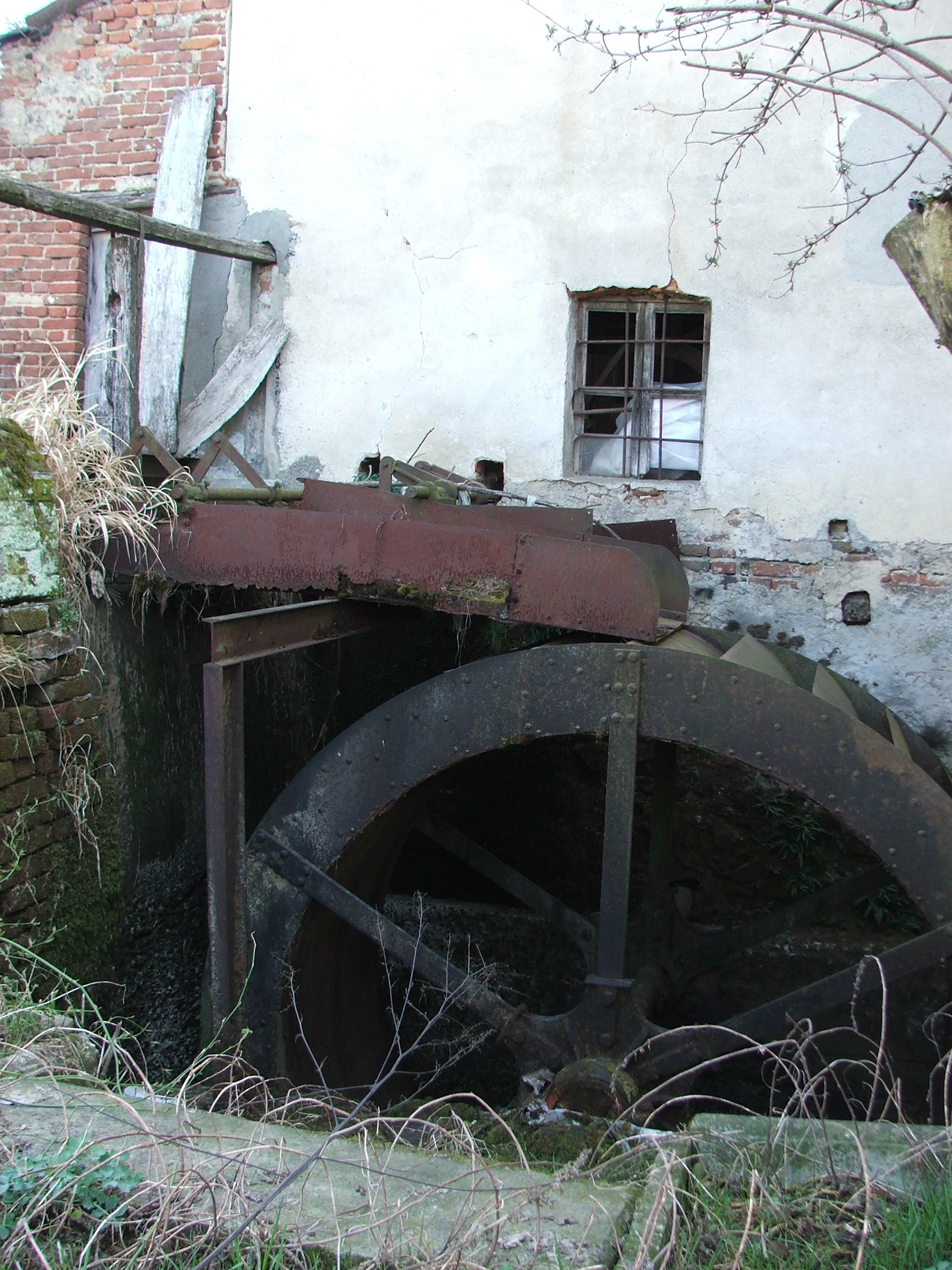 Mill of Rodallo